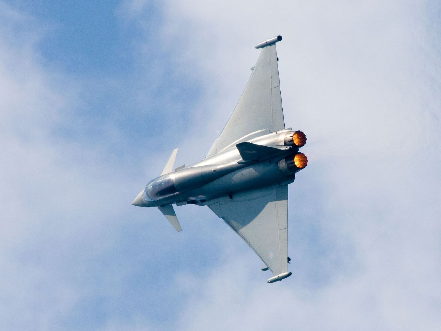 Eurofighter Typhoon in flight